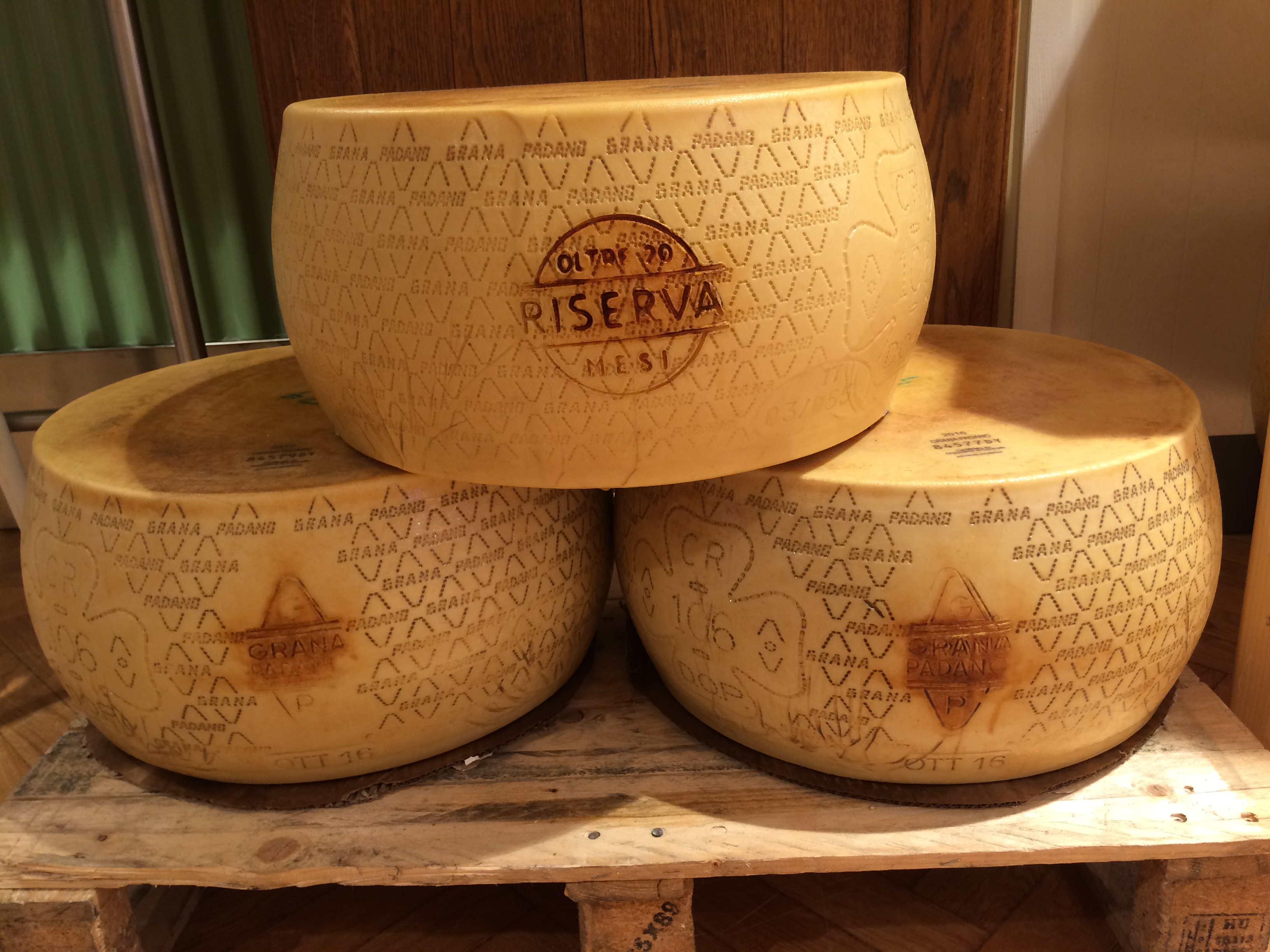 Grana Padano at Eataly in Stockholm